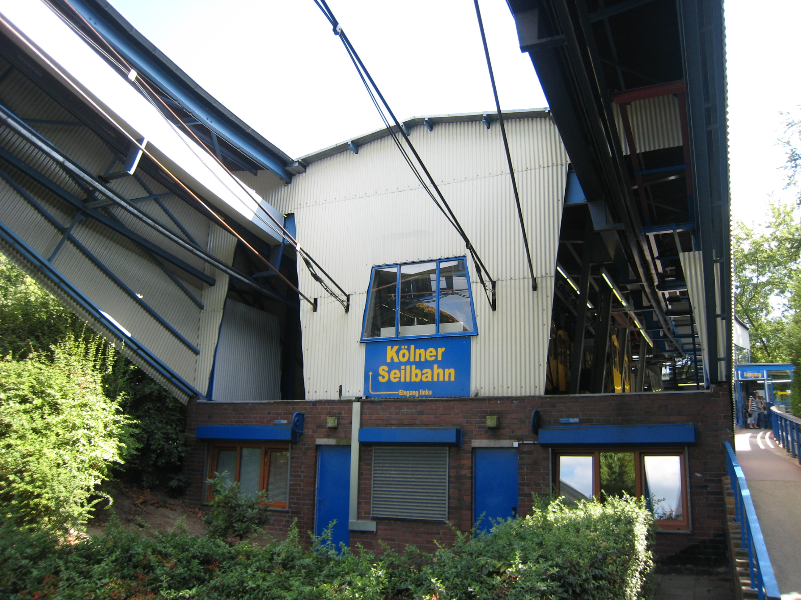 Station Rhine Park of the Rheinseilbahn in the Rheinpark in Cologne (Germany)